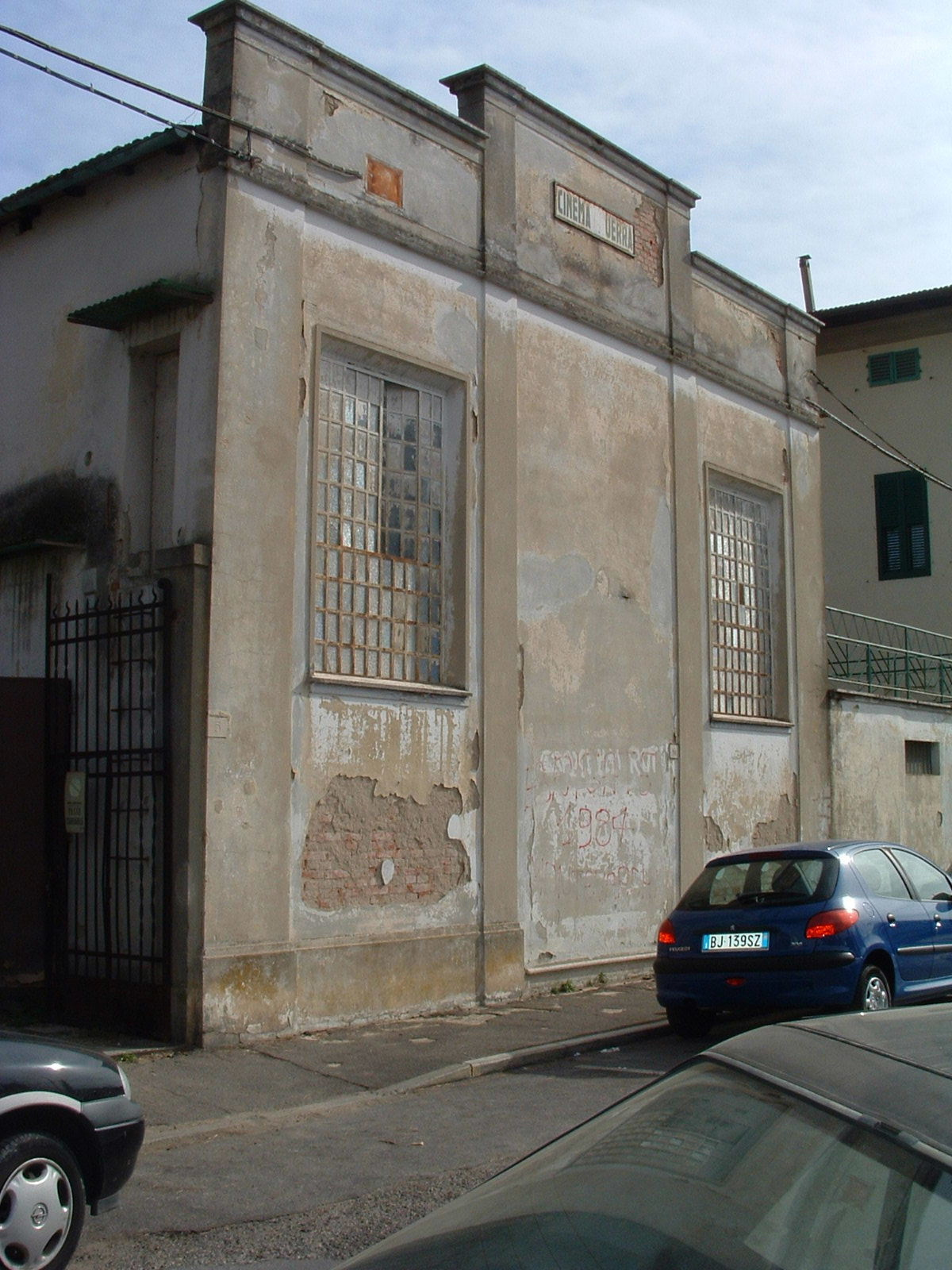 The former main entrance of the Guido Guerra Cinema in Montevarchi.